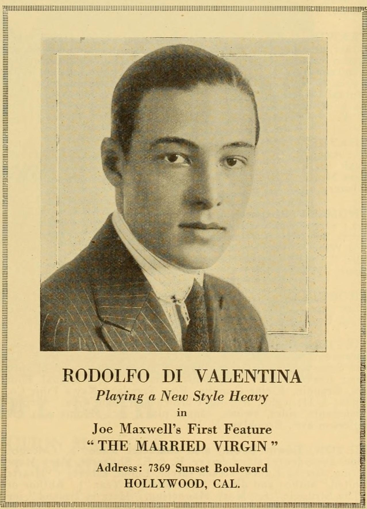 Advertised as a "heavy", Rudolph Valentino in an advertisement for the American film The Married Virgin (1918).